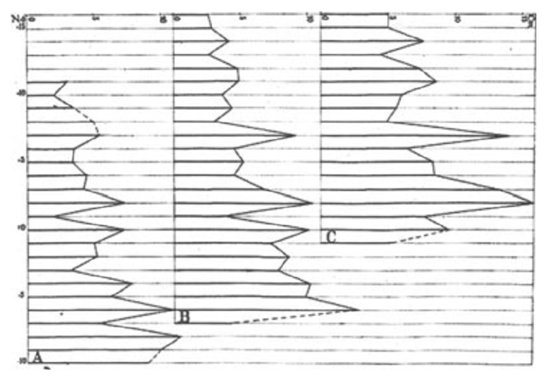 Diagrams of varve correlations. A figure from article De Geer, G. A geochronology of the last 12 000 years (англ.) // Congrès Géologique International, 11:e session. — 1912.